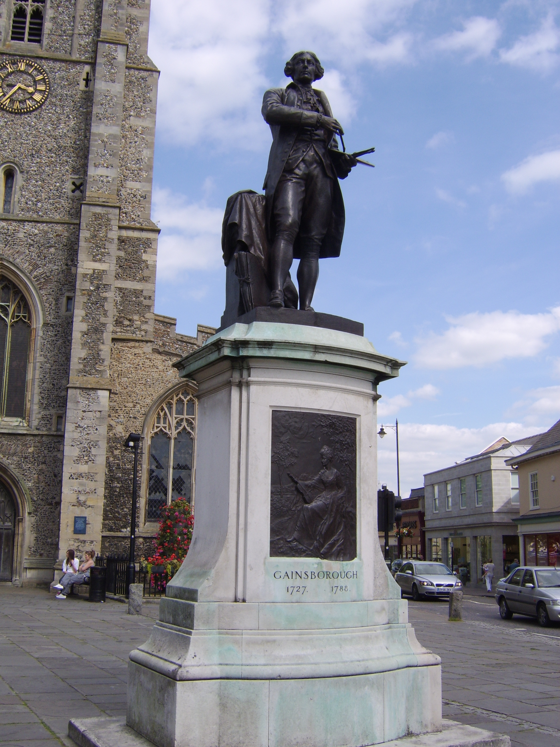 A photograph of the statue of Thomas Gainsborough in the town centre of Sudbury, Suffolk.